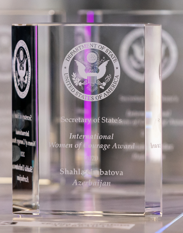 The International Women of Courage Awards are seen during a ceremony Wednesday, March 4, 2020, at the U.S. State Department in Washington, D.C. (Official White House Photo by Andrea Hanks)